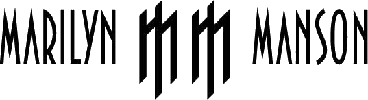 The logotype for Marilyn Manson.